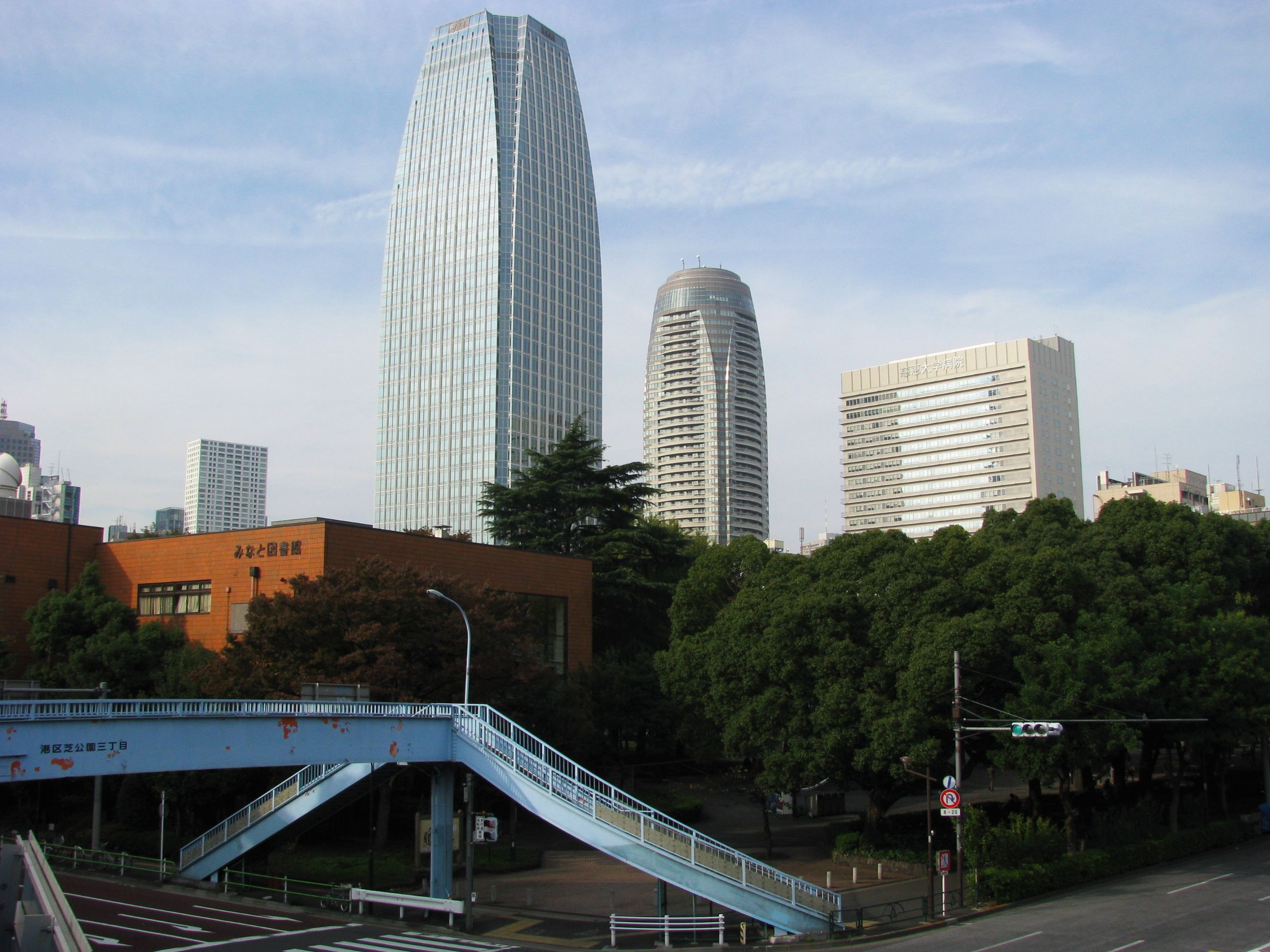 This location is in Minato, Tokyo, Japan.